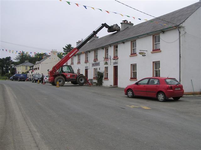 Churchill, County Donegal, near to Church Hill, Donegal, Ireland. Looking south-west